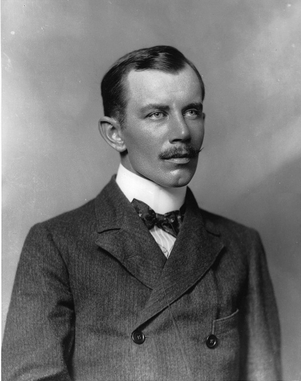 Percy Girouard in 1899. Montreal-born Sir Percy Girouard (1867-1932) was a railroad builder and colonial administrator.